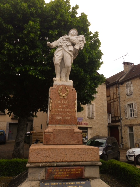 Monument to the dead in several conflicts, Cajarc, France